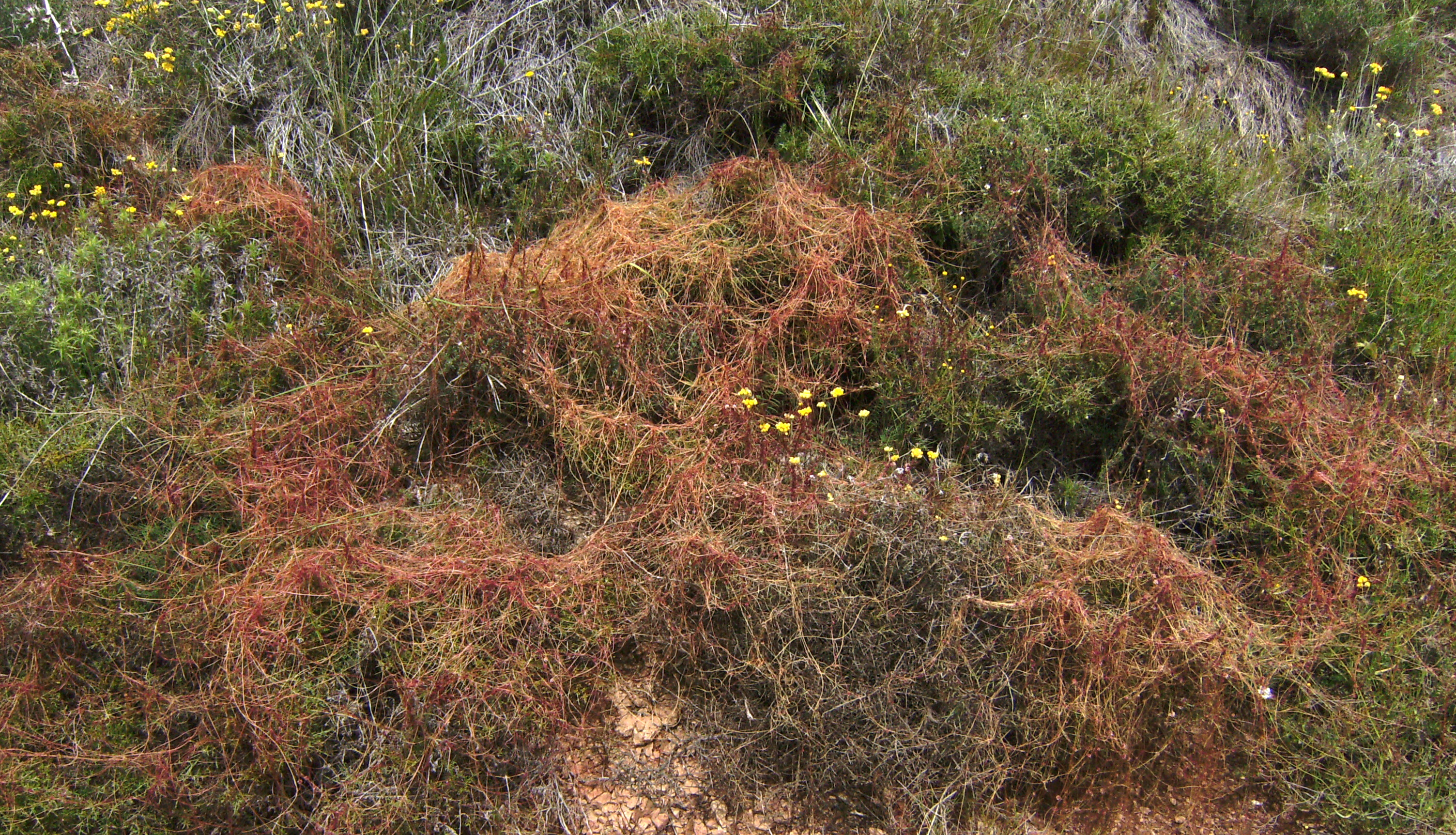 Cuscuta sp parasiting a group of Genista horrida (Fabaceae), Castelltallat, Catalonia